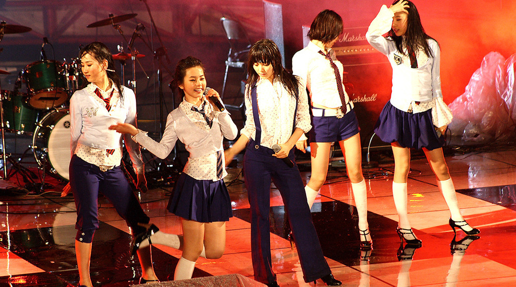 The Wonder Girls at the Daedongje, Hanyang University Festival.